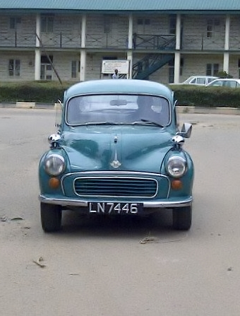 An image of 1964 Morris Minor used in October 1 film